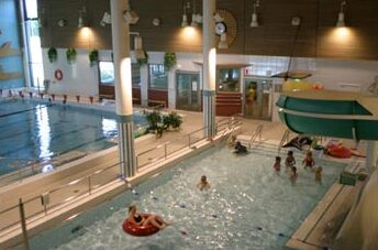 Swimming hall Puikkari in Pudasjärvi, Finland